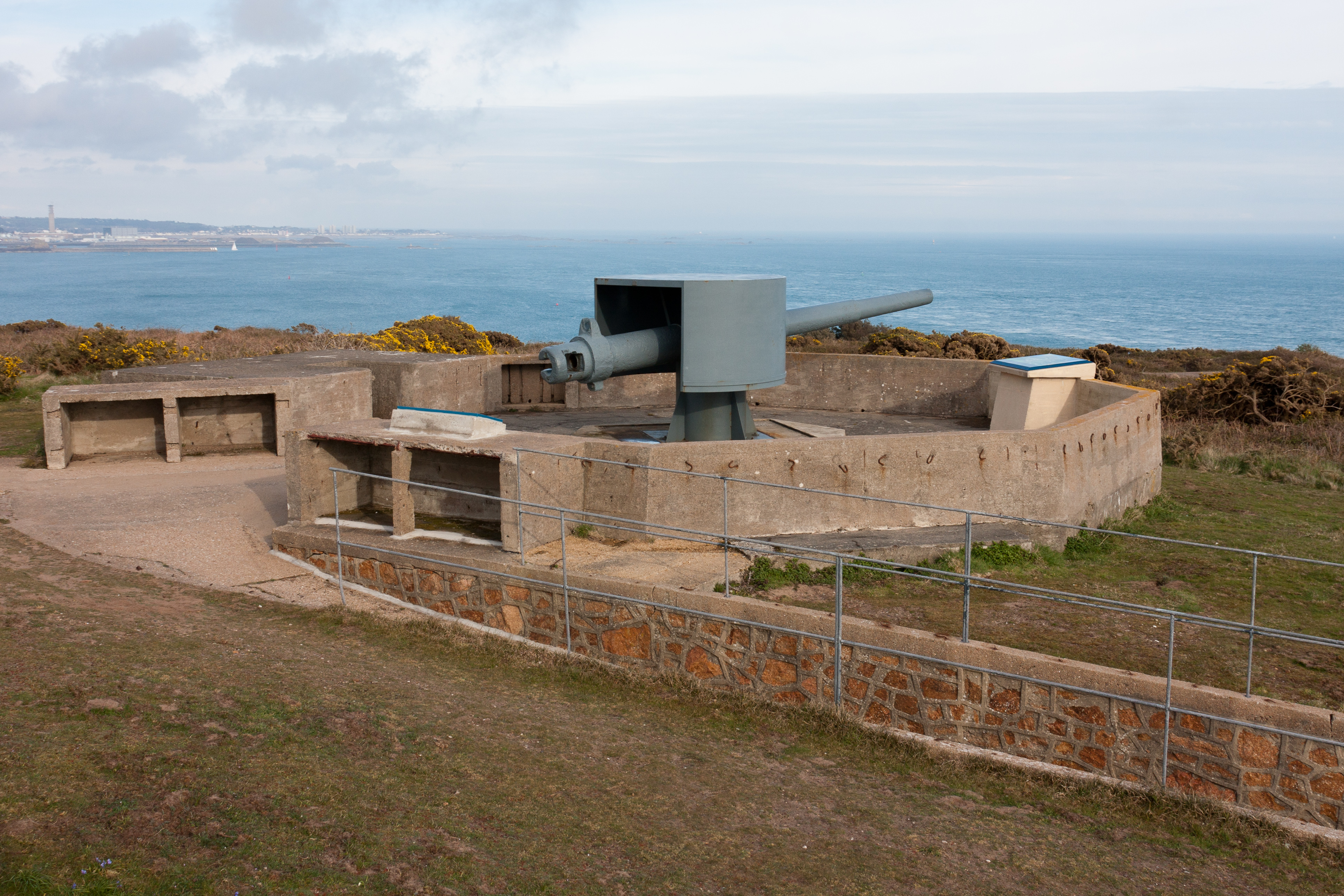 Remains of a 15 cm SK L/45 naval gun at Battery Lothringen. Wide view.